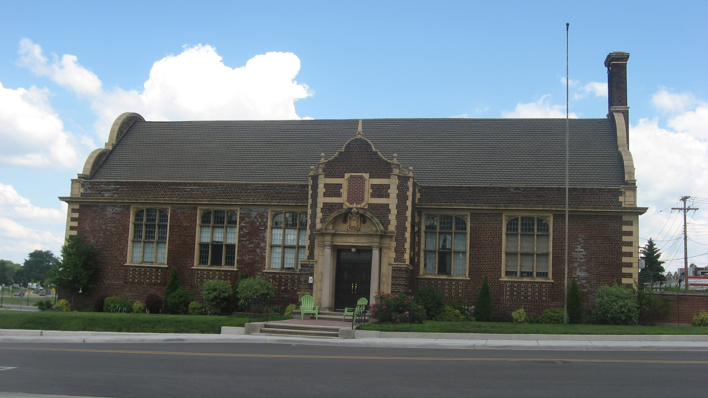 Front of the Mishawaka Carnegie Library, located at 122 N. Hill Street in Mishawaka, Indiana, United States. Built in 1916, it is listed on the National Register of Historic Places.